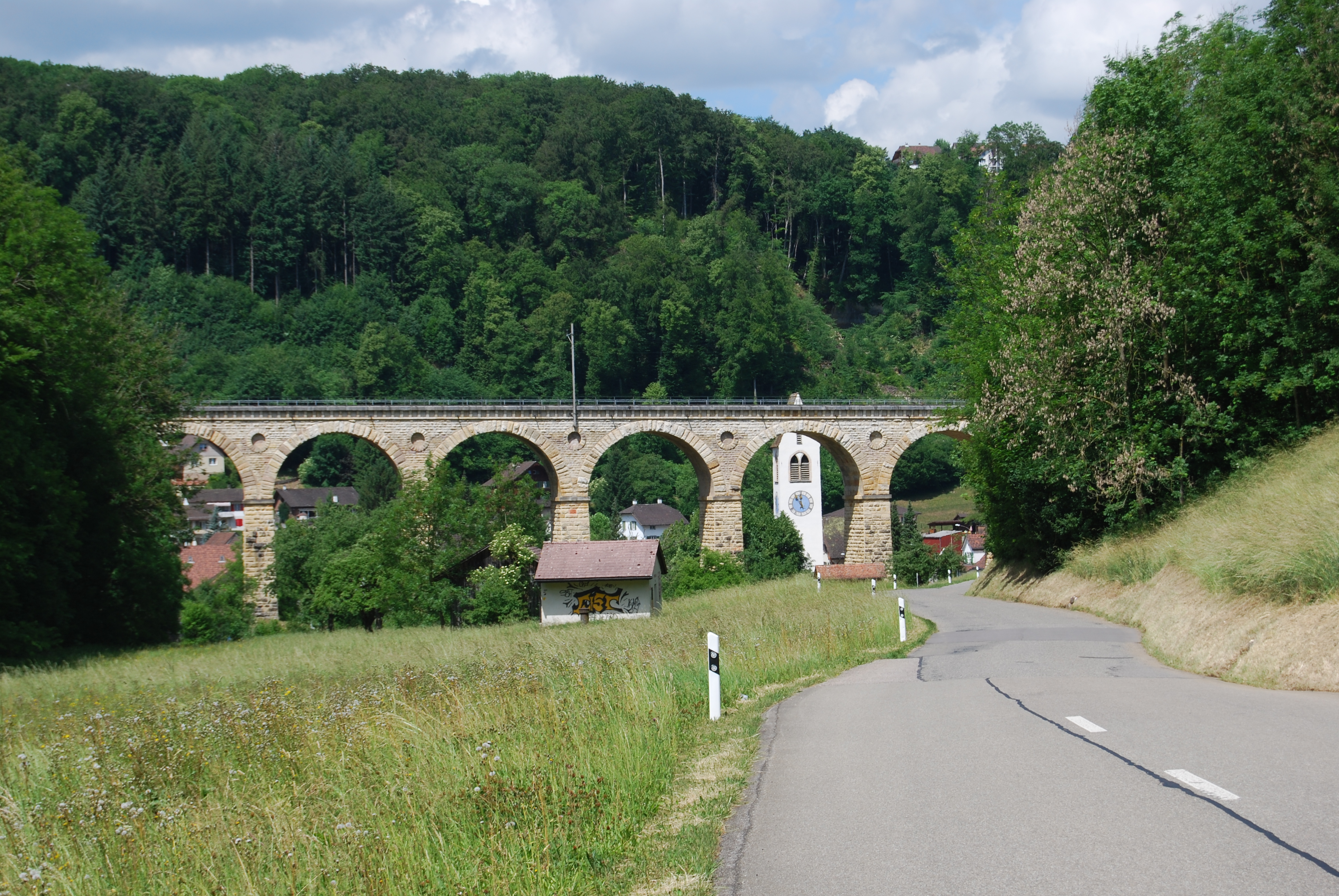 Viaduct of Rümlingen, canton of Basel-Country, Switzerland